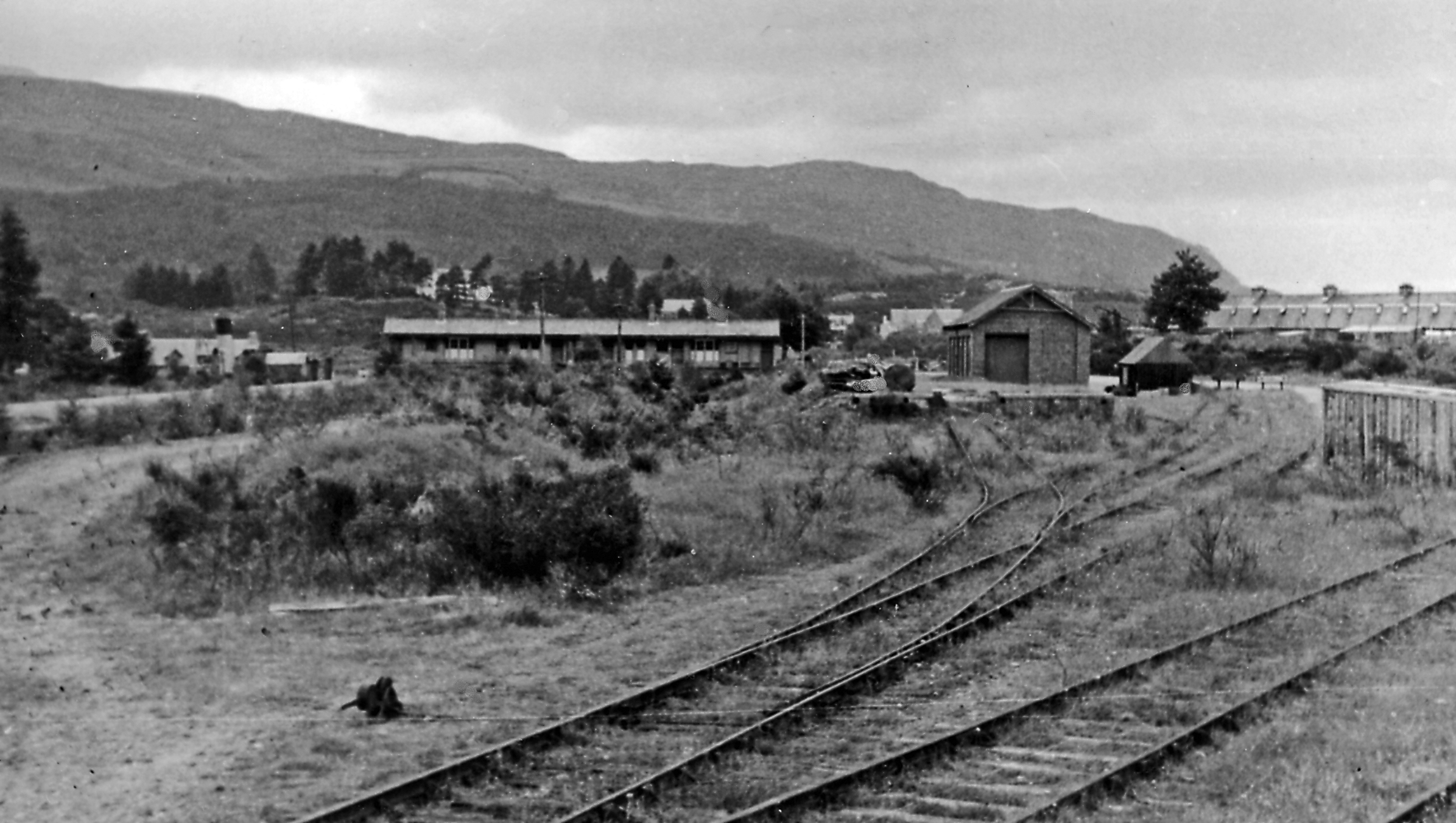 Remains of Fort Augustus station and yard View northward to the terminus of the former branch from Spean Bridge, closed to passengers 1/12/33, completely 1/1/47. The Pier on Loch Ness, accessed from the tracks on the right, closed to passengers 1/10/1906, to goods 7/24. The branch was off the West Highland Line of the North British Railway, but was jointly owned by the Highland Railway. Loch Ness stretches for miles up to the right and ahead are the mountains of Portclair Forest.